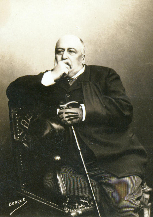 The French playwright William Bertrand Busnach (1832-1907)